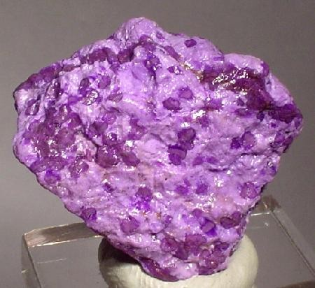 Sugilite Locality: Wessels Mine (Wessel's Mine), Hotazel, Kalahari manganese fields, Northern Cape Province, South Africa (Locality at ) Size: 3.0 x 2.8 x 1.3 cm. An extremely colorful specimen of solid, lavender sugilite richly embedded with purple sugilite microcrystals. VERY UNCOMMON with this richness. The crystals are small, but so bright and so colorful! This is very desirable and hard to obtain today.